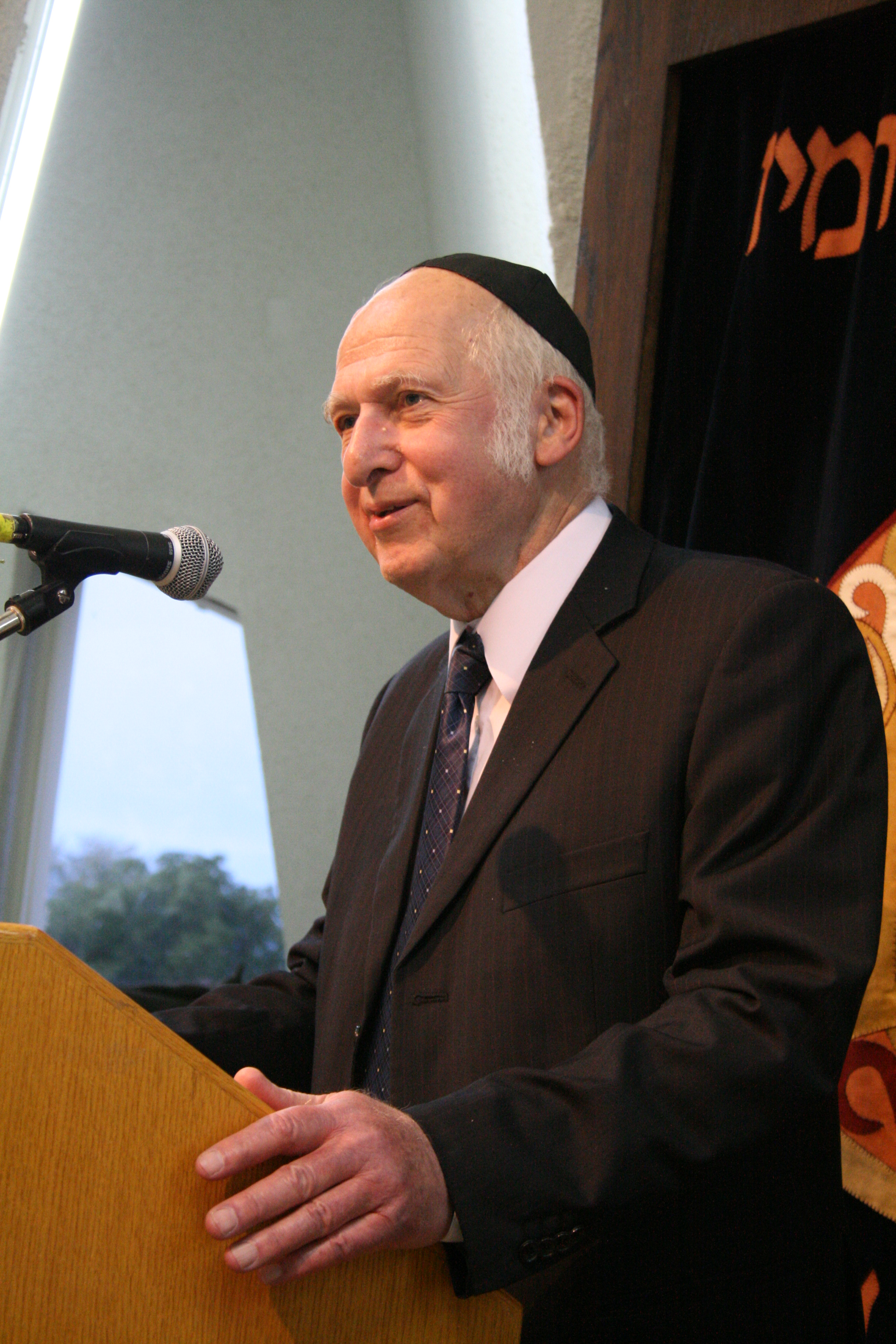 Rav Aharon Lichtenstein at the inauguration of his son Rav Mosheh Lichtenstein as a Rosh Yeshiva of Yeshivat Har Etzion. 28 October, 2008.